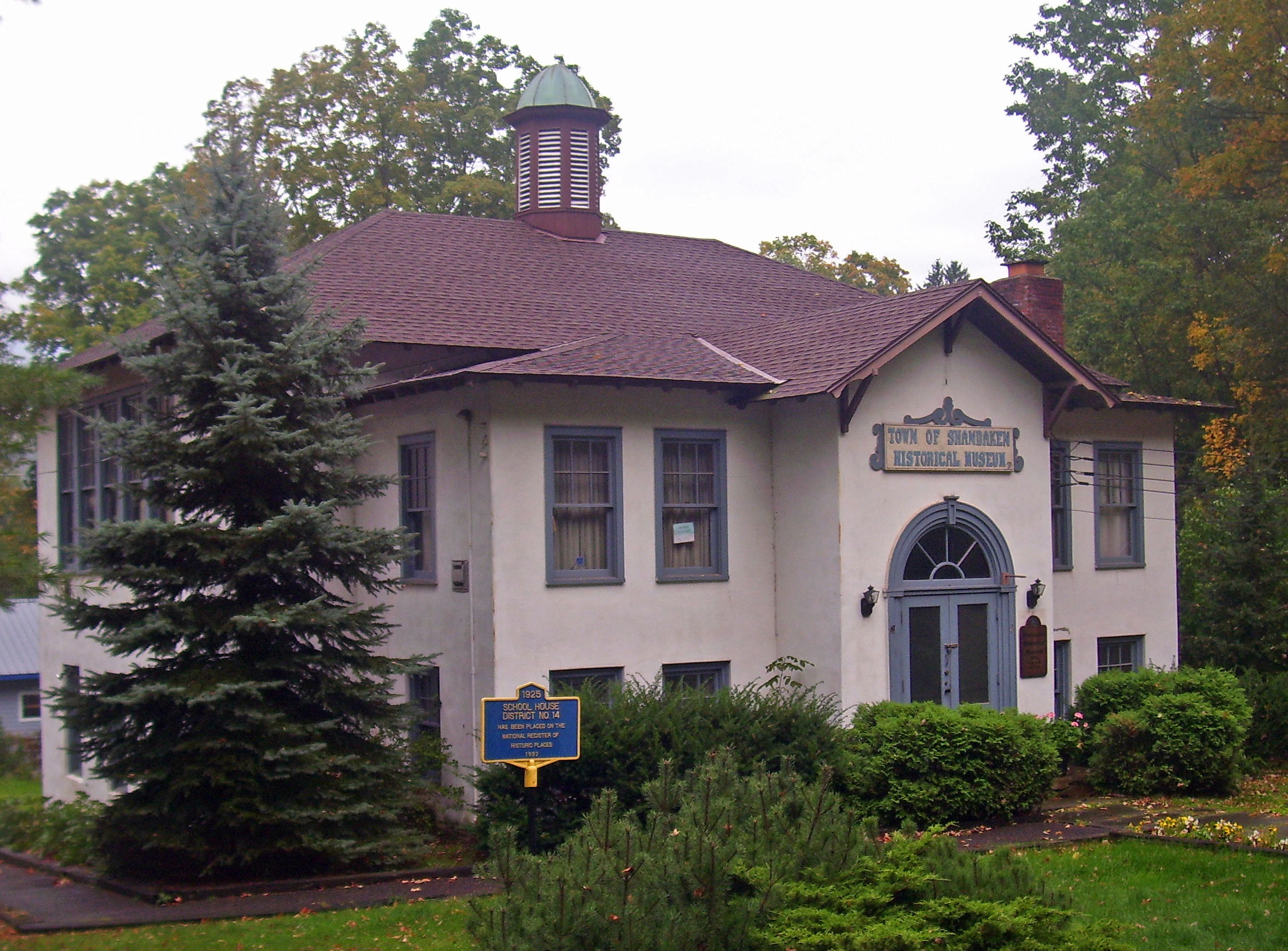 Former District School No. 14, now the Town of Shandaken historical museum, in Pine Hill, NY, USA